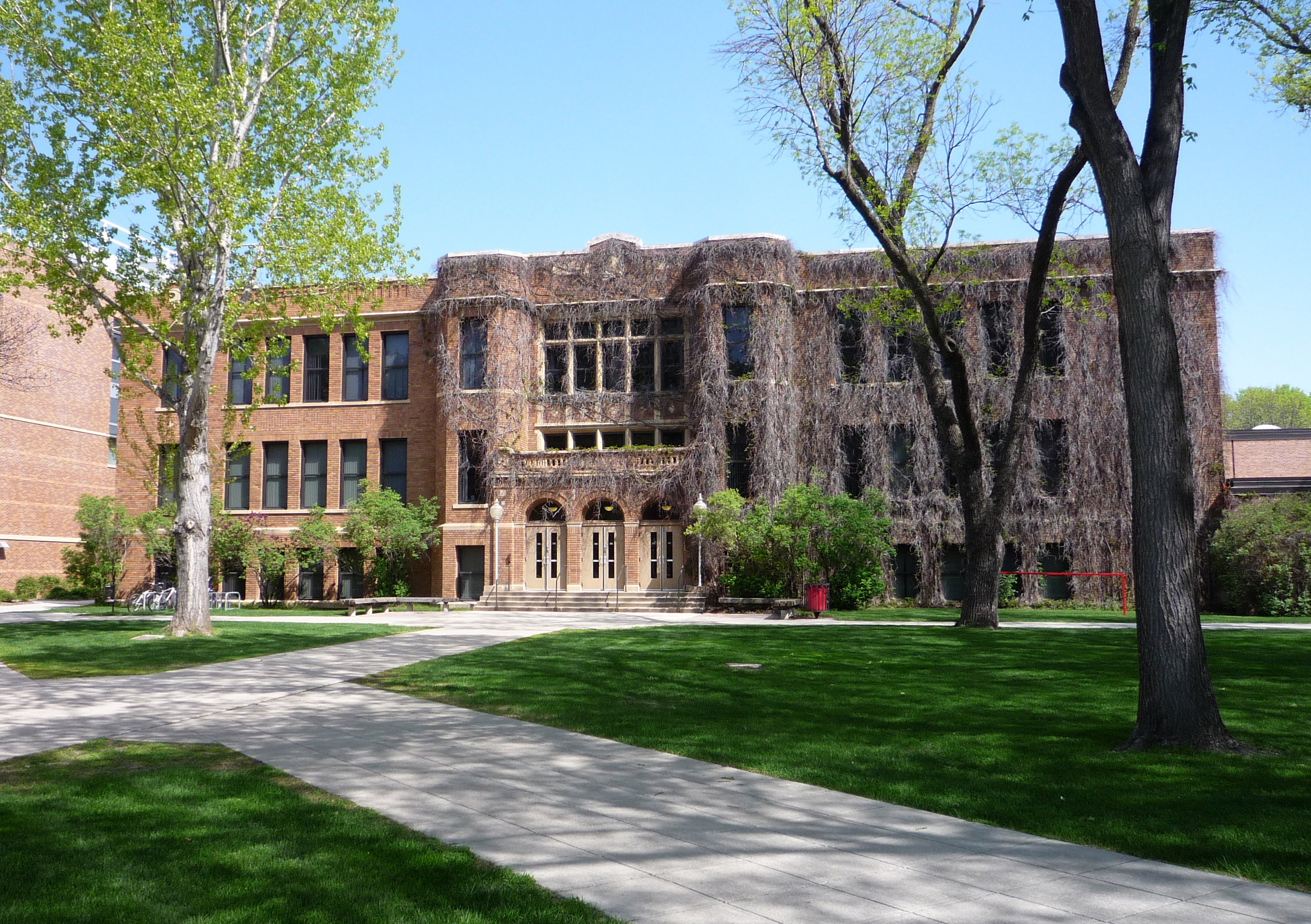 Weld Hall, the oldest building on the Minnesota State University, Moorhead (Moorhead State) campus, Moorhead, Minnesota, USA.